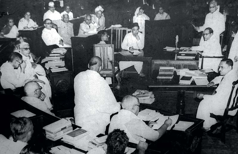 A Constituent Assembly of India meeting in 1950. B.R. Ambedkar can be seen seated top-right.